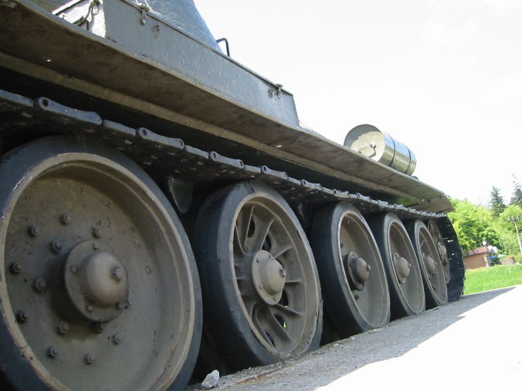 Slovakia Soviet Tank World War 2